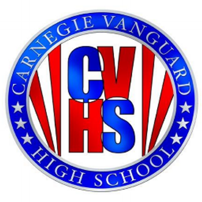 Logo of CVHS